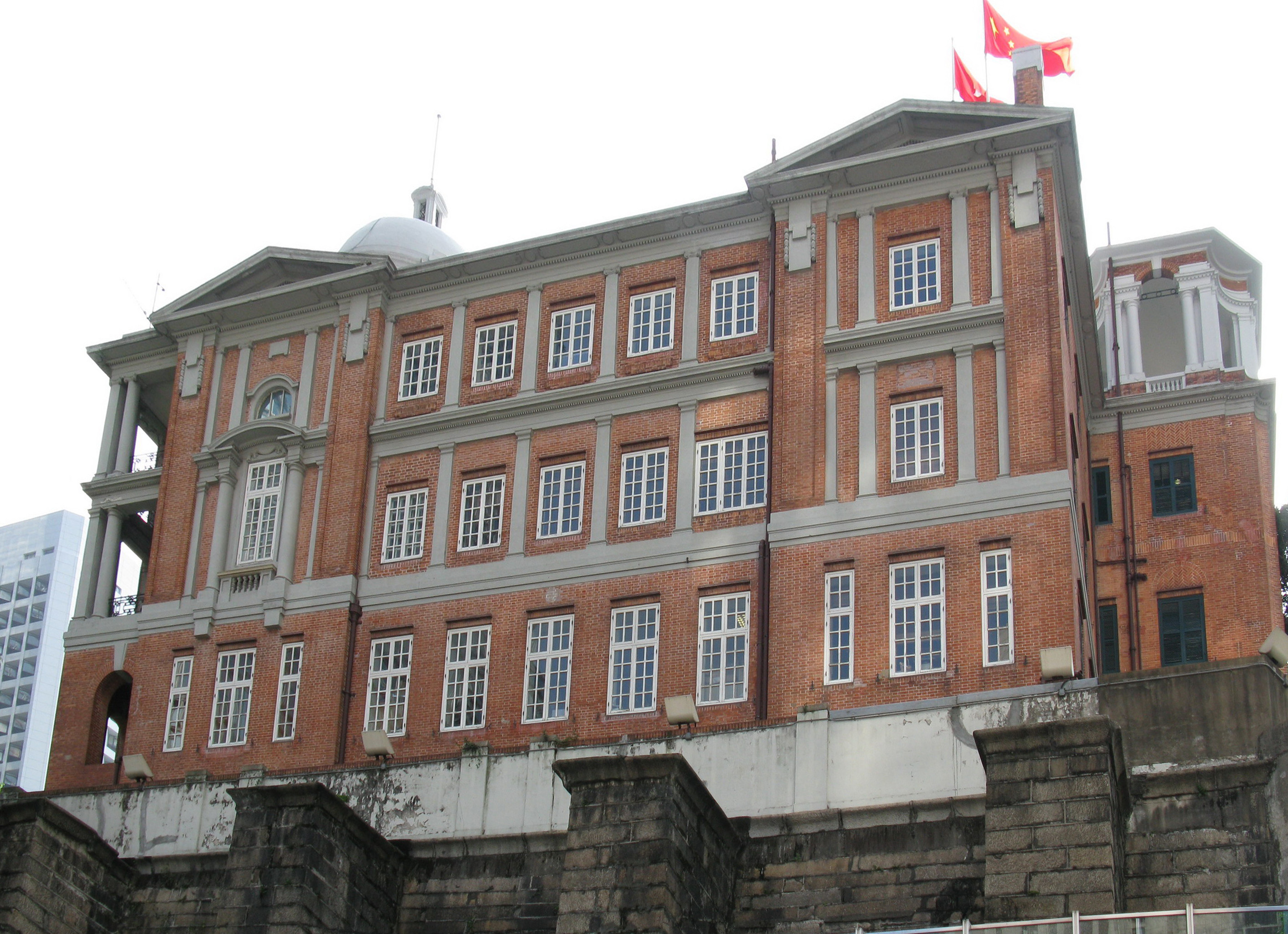 終審法院 Court of Final Appeal